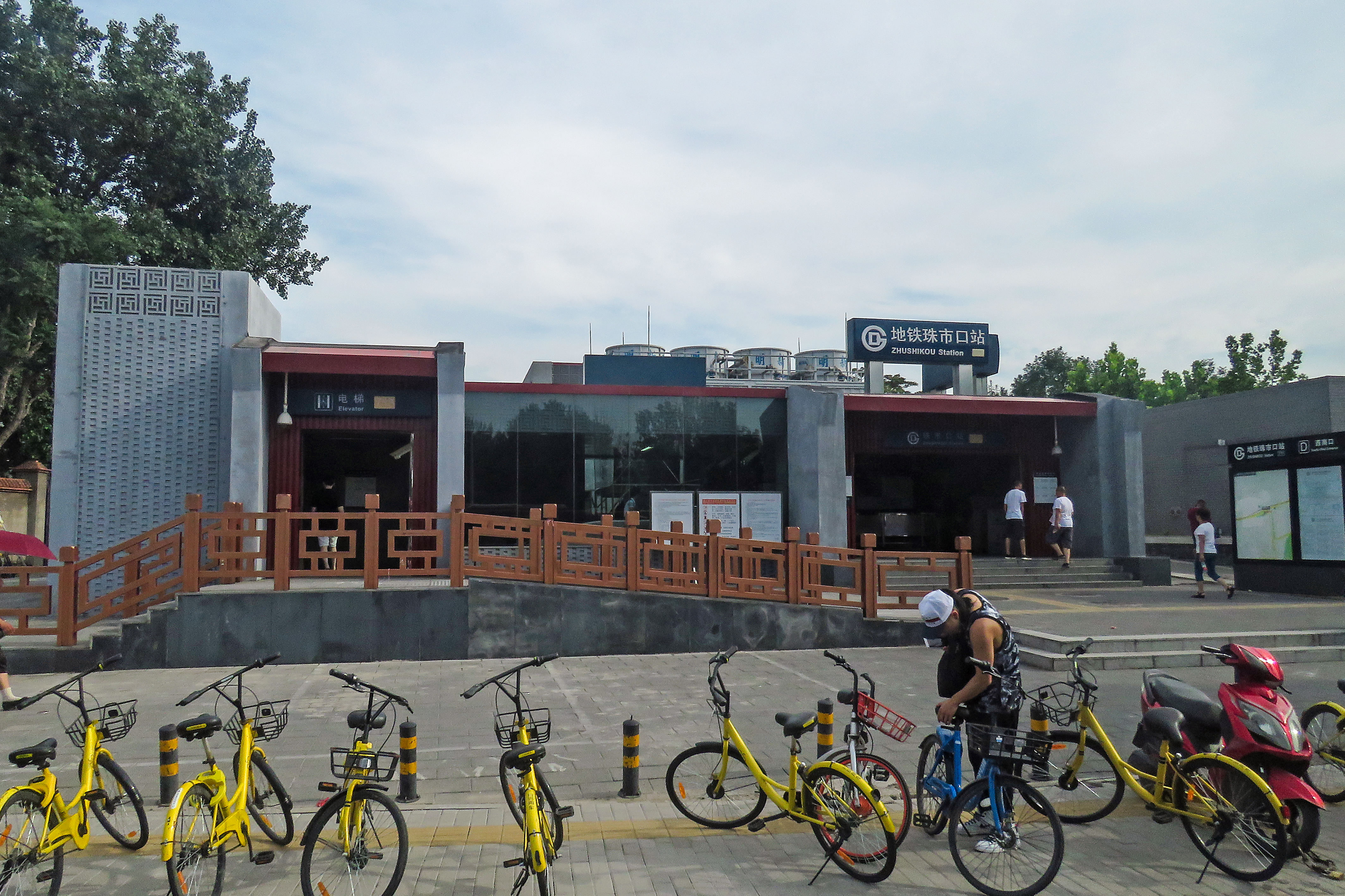 Interchange station of Line 7 and Line 8.